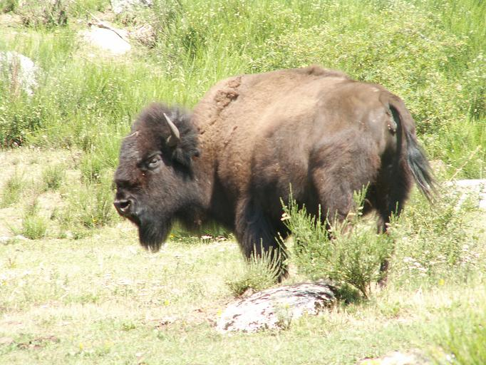 American bison.